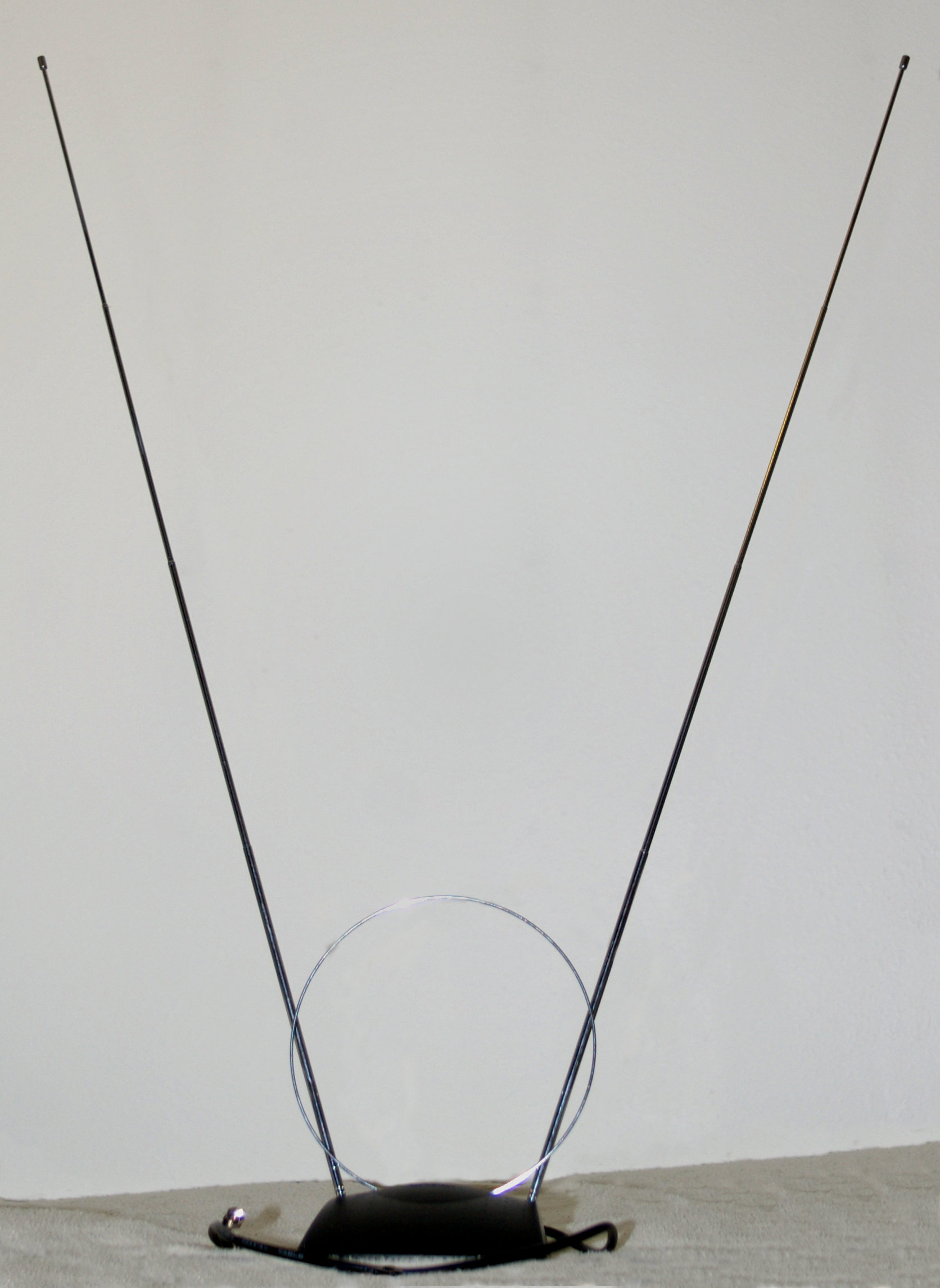 A "rabbit-ears"-style dipole television antenna with UHF loop antenna